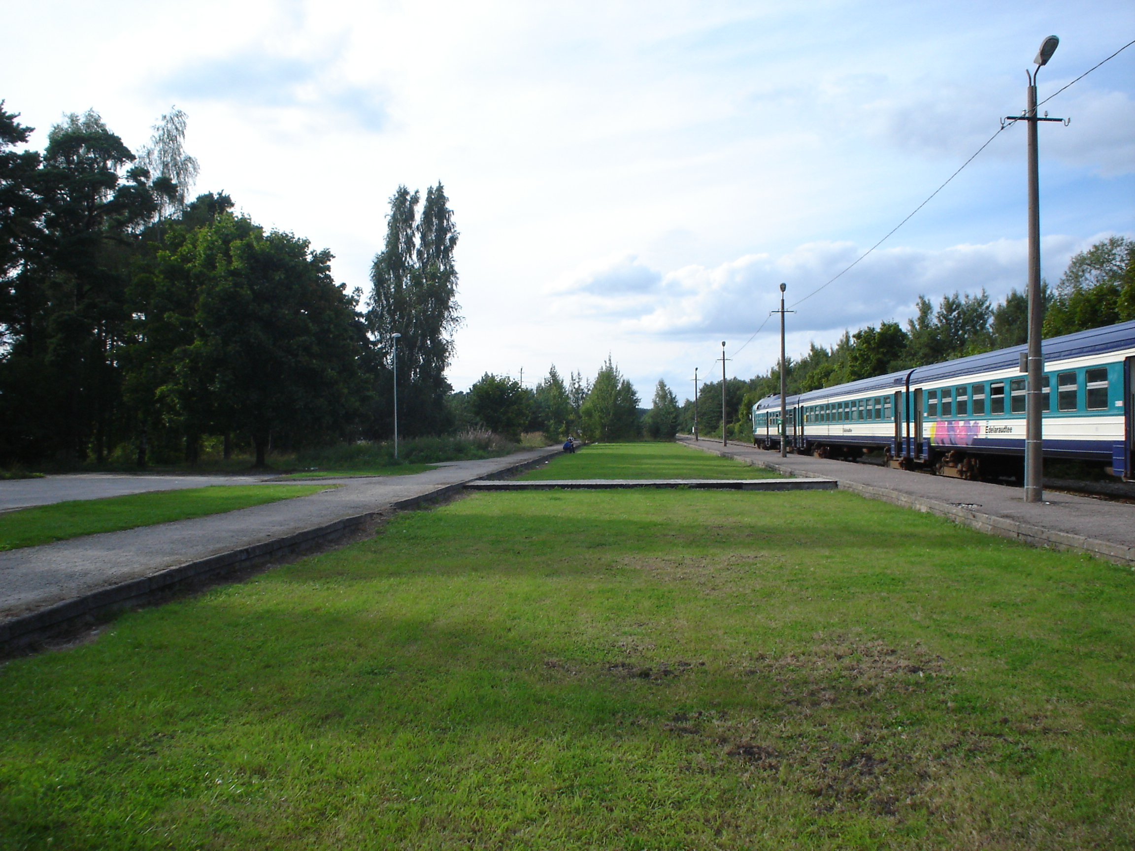 Path for dismantled rail tracks on Pärnu (Raeküla) railway station.